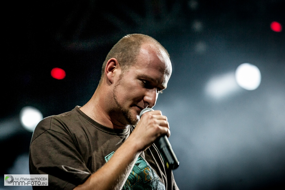 Polish rapper Grubson, Luxfest3, Hala Arena, Poznan